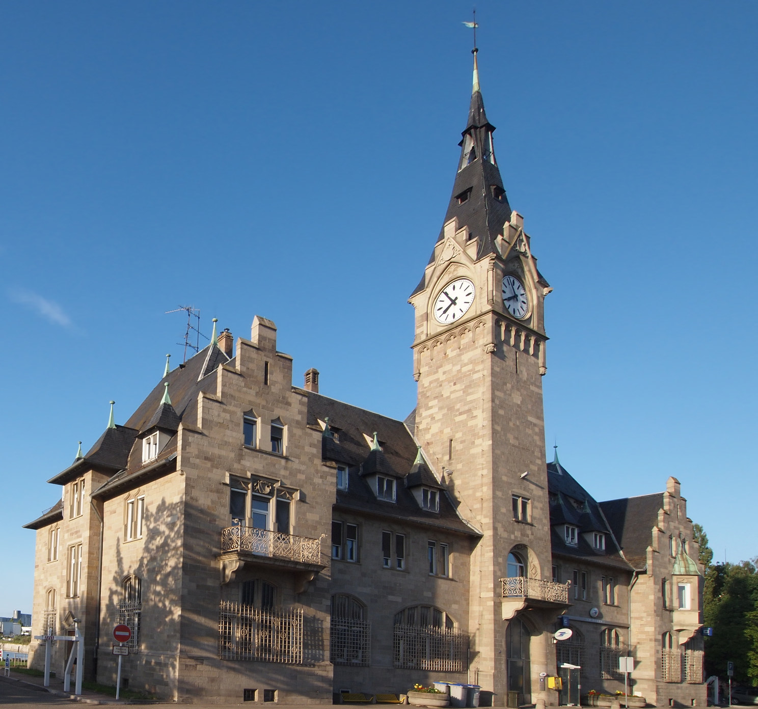 Former capitainerie in the Port of Strasbourg, France. Still used by the port administration and a post office.